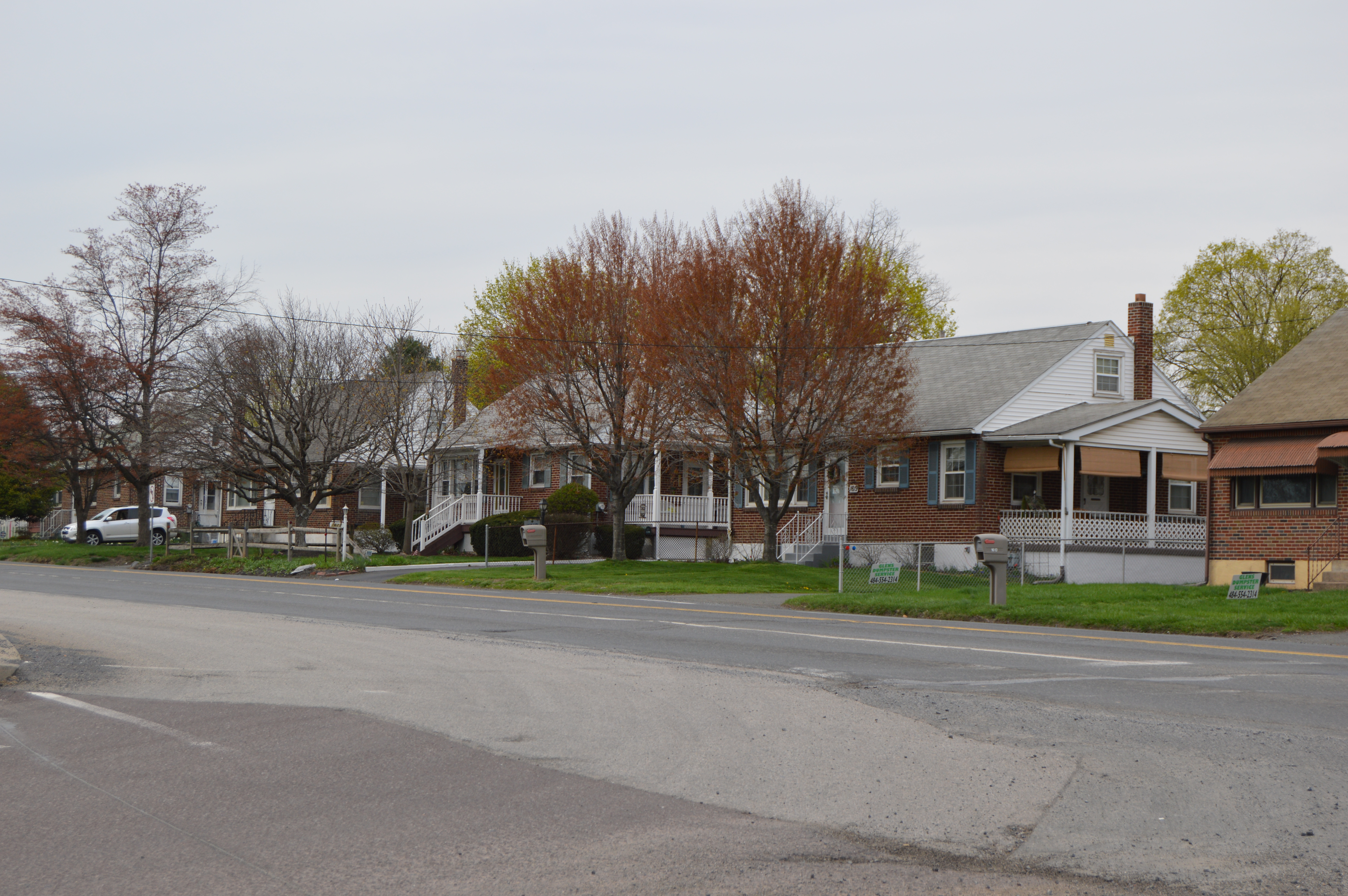 Houses on the northern side of High Street, immediately west of the Grosstown Road intersection, in Stowe, Pennsylvania, United States.